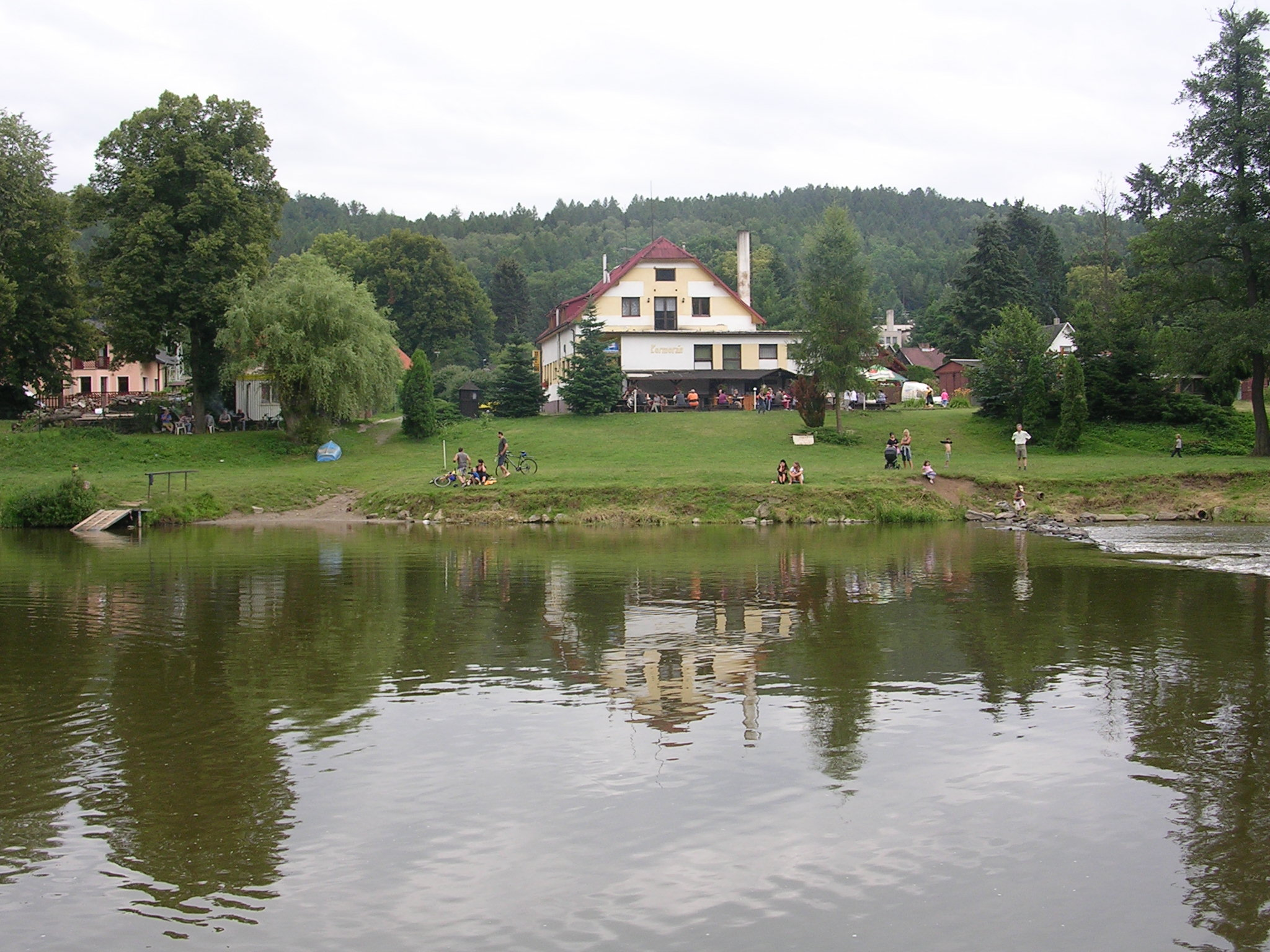 Zlenice, Central Bohemian Region, the Czech Republic.